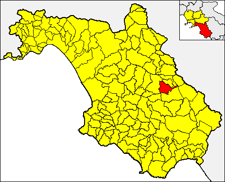 Locator map of the municipality of San Rufo (red) within the Province of Salerno